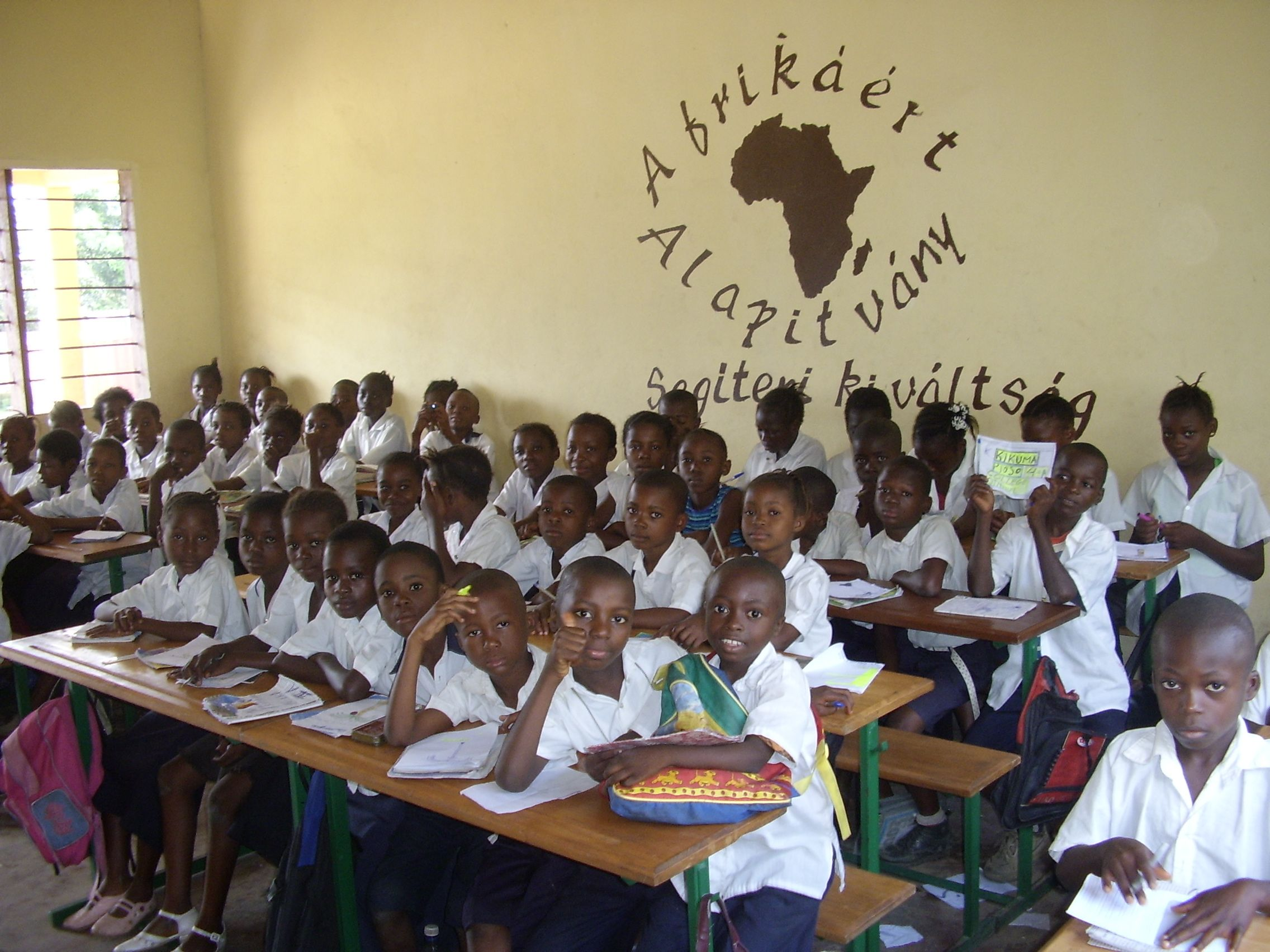 students of the College Othniel